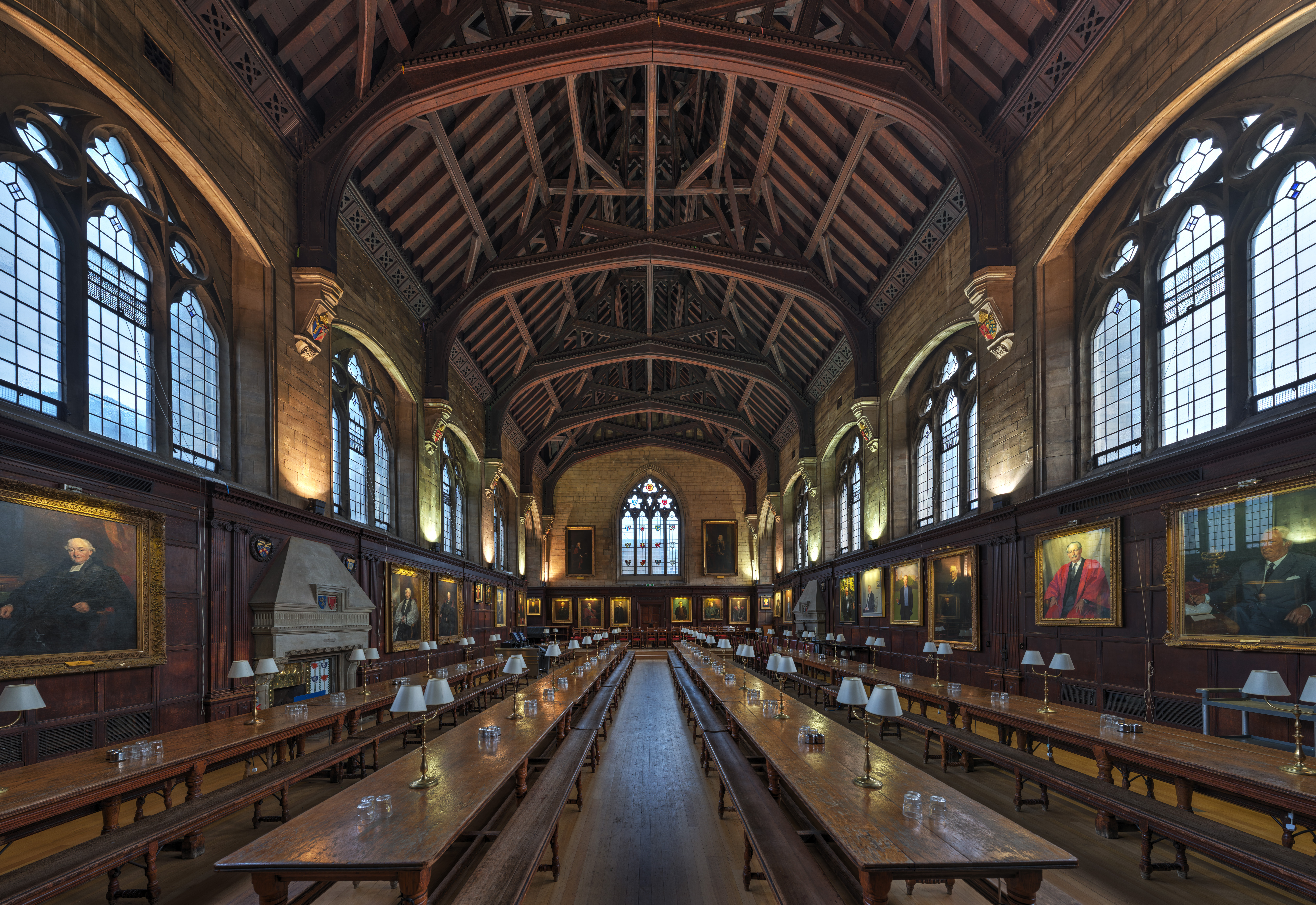 The Dining Hall of Balliol College, Oxford University, United Kingdom